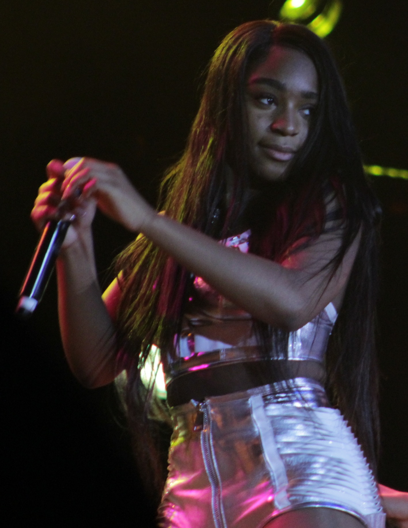 Fifth Harmony (Lauren Jauregui, Normani Kordei, Dinah Jane Hansen, Ally Brooke Hernandez) perform at the Los Angeles County Fair in Pomona, Ca. on Sep. 15, 2017. Taken by Dominique Redfearn